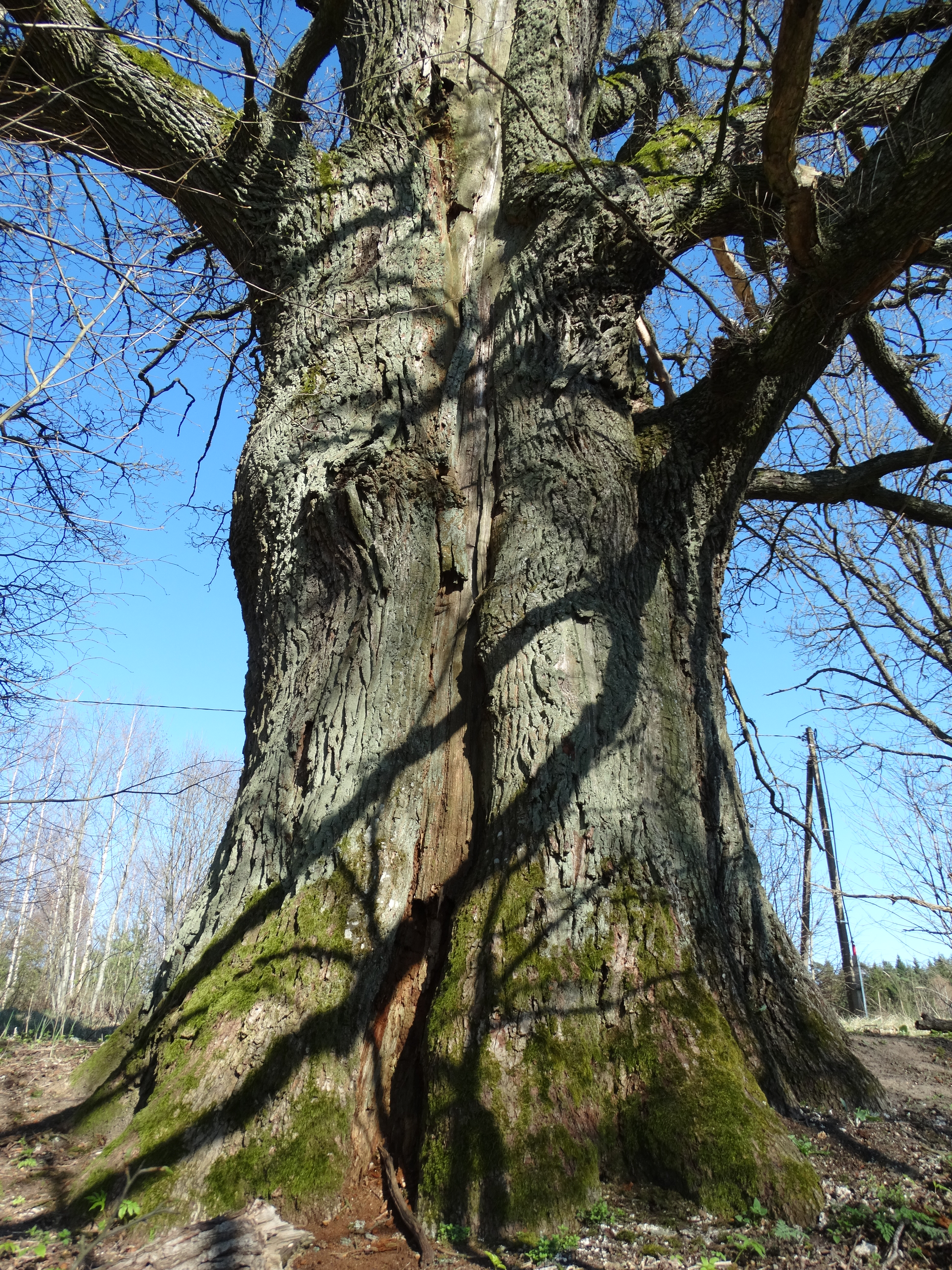 Žudiškės Oak, Vilnius district, Lithuania